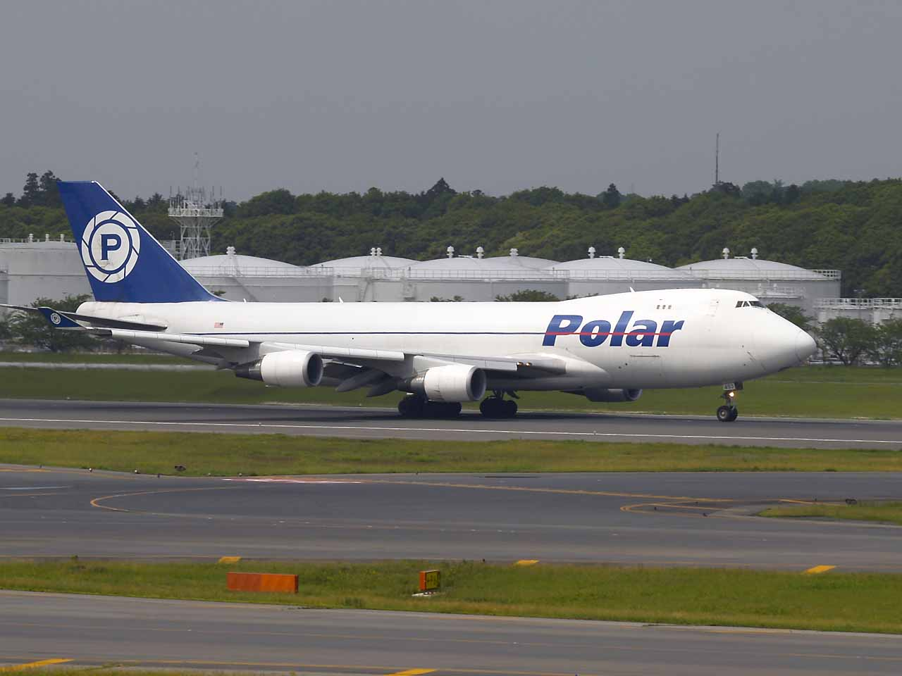 Boeing 747-400F, fleet of Polar Air Cargo. Registration: N453PA Place: Narita International Airport